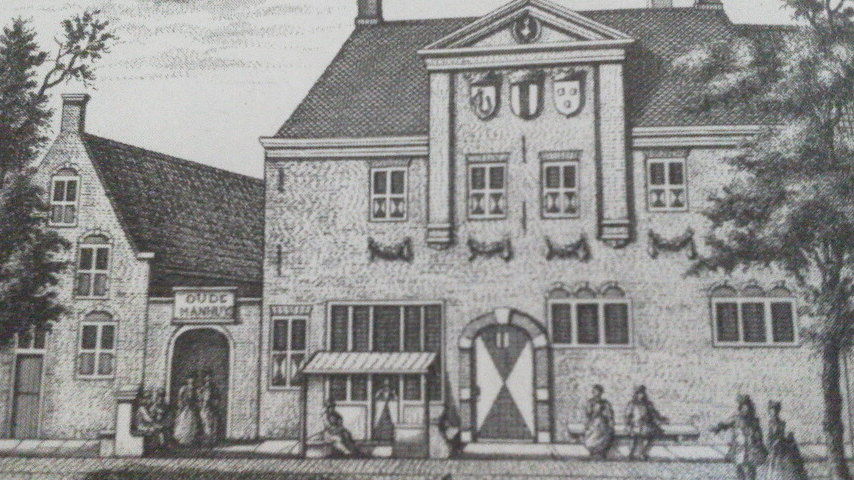 Copperplate print of Guild of Saint Luke. It was carved in 1730s by Anonymous. Public domain. 1730年代に彫られ、出版された聖ルカ組合の銅版画。作者不明。